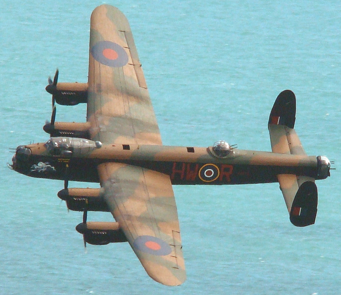 Avro Lancaster of the Battle of Britain flight flying around Beachy head during Airbourne the Eastbourne air show